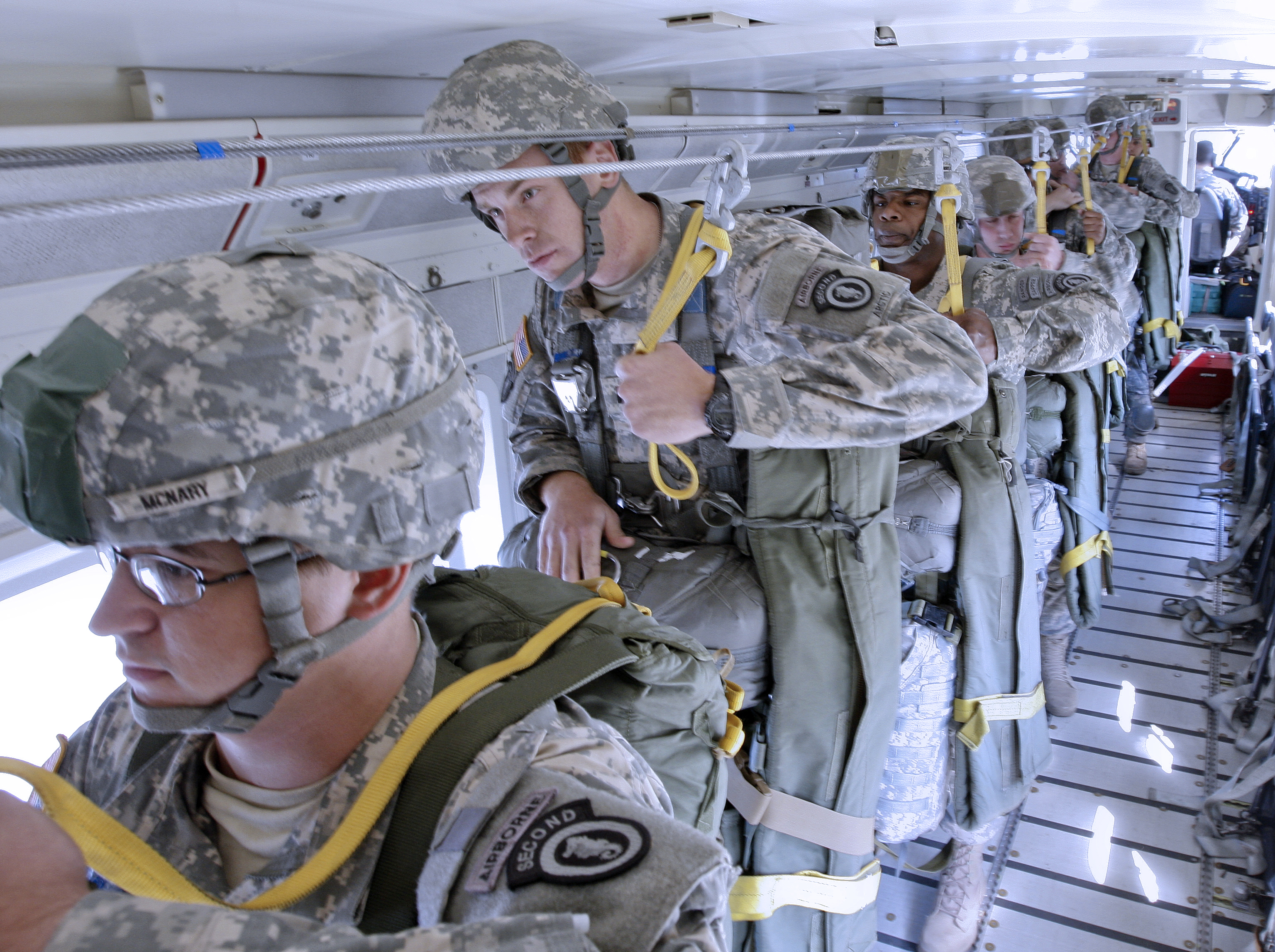 United States Army Alaska soldiers prepare to exit a C-23 Sherpa aircraft onto Malamute Drop Zone, June 12, 2013. The soldiers jumped at 1,500 feet with both full combat equipment and “Hollywood,” or no load, from aircraft piloted by members of the 1st Battalion, 207th Aviation Regiment, Alaska Army National Guard. Capable of increased speed, higher altitude, and the ability to cover longer distances than military helicopters, the C-23 can be configured to carry out missions from troop transport to surveillance.